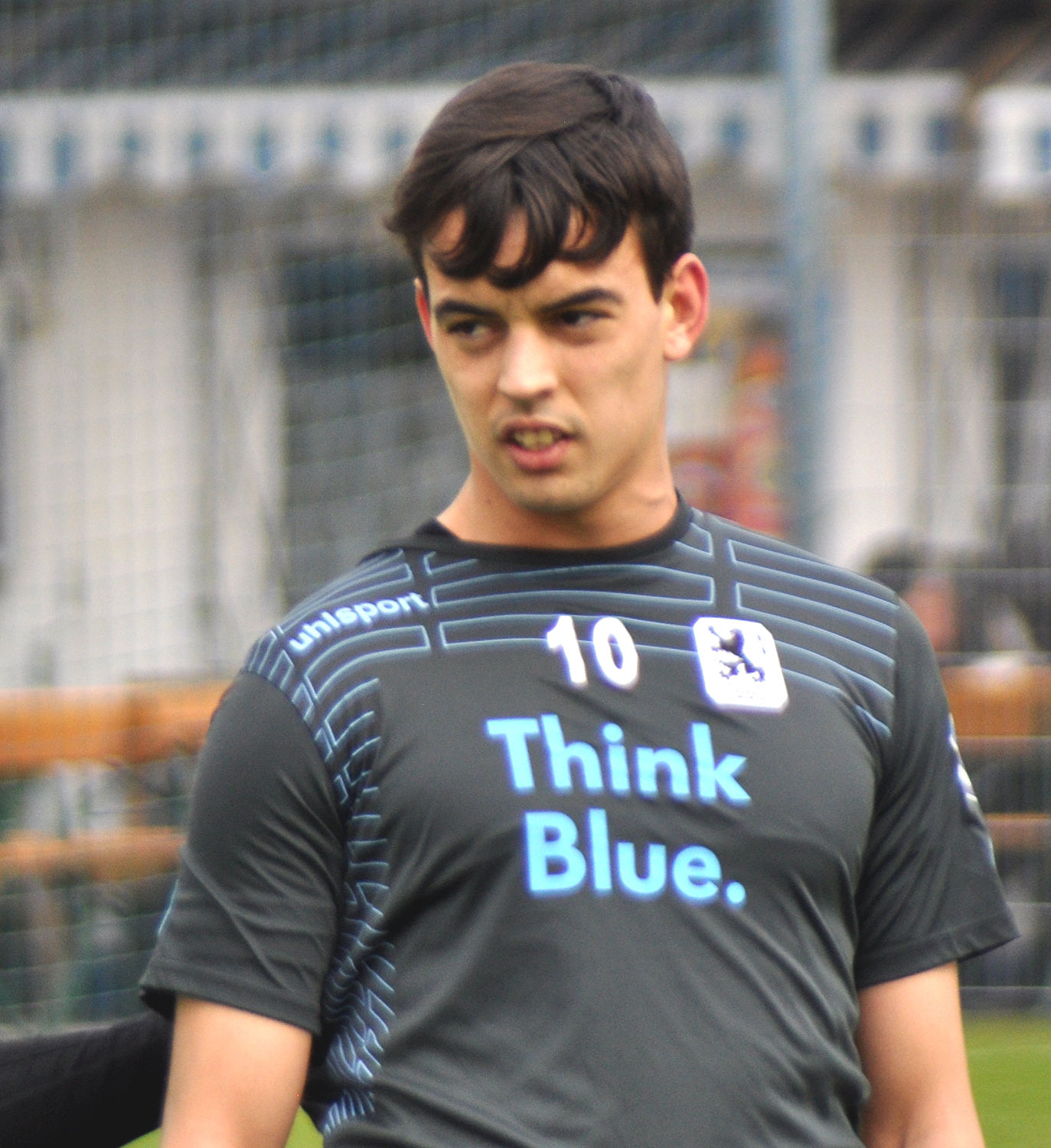 Edu Bedia